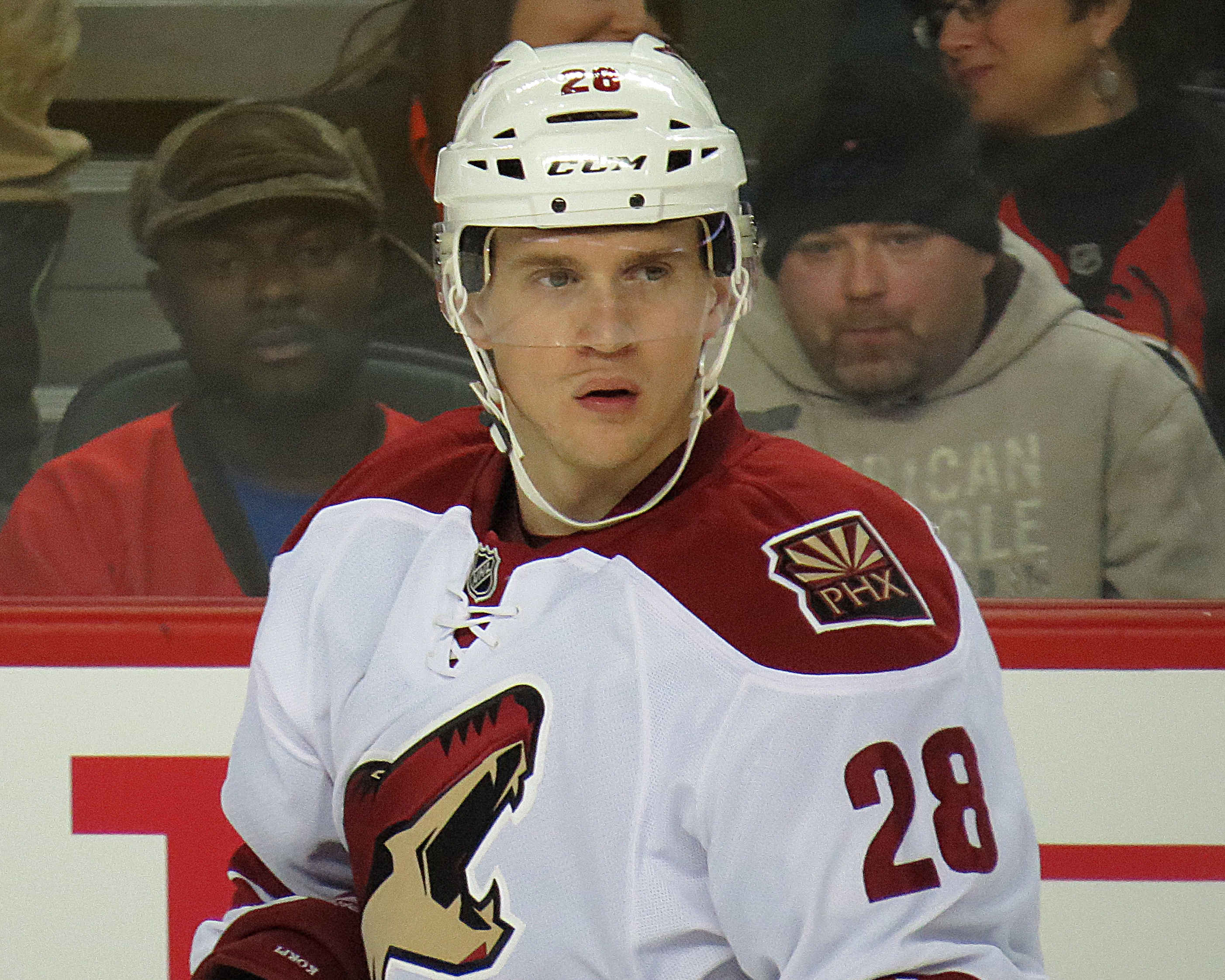 Korpikoski with the Coyotes during the 2013-14 season.